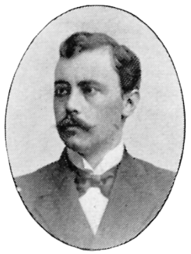 Image scanned from the book "Svenskt Porträttgalleri XX - Arkitekter, Bildhuggare, Målare m.fl. " ("Swedish Portrait Gallery XX - Architects, Sculptors, Painters, ") published 1901